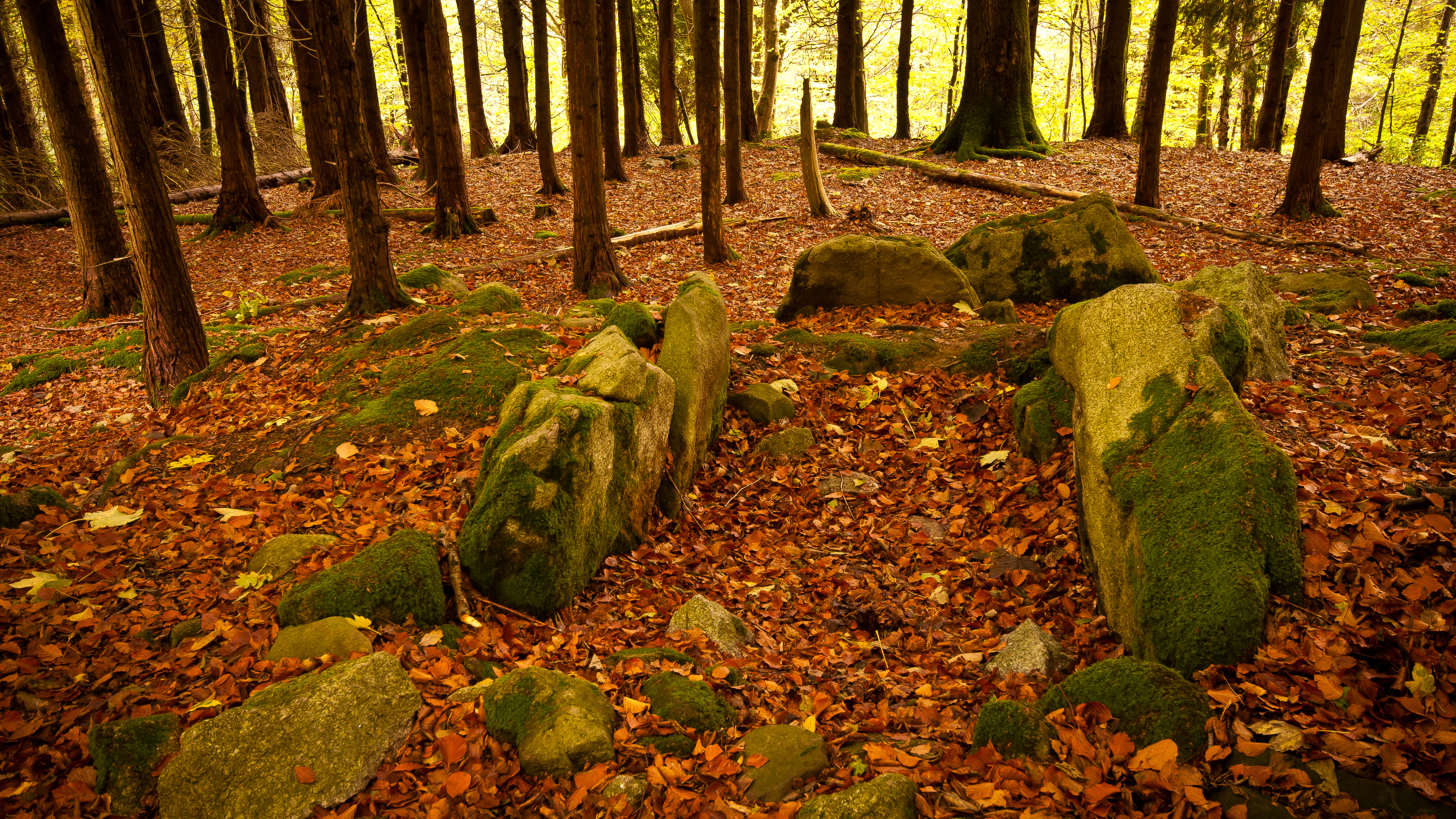 This small Bronze Age wedge tomb, found in Lord Massey's Woods in the Dublin Mountains, still has many stones in place but the cairn stone infill has mainly disappeared (most likely used a material for the dry stone wall that runs past the site), leaving just low skeletal remains, which may be why the site was not identified until 1978. It is very similar in layout to the two other wedge tombs in the Dublin Mountains found at Ballyedmonduff and Kilmashogue. As can be seen in the picture, the stones forming the walls of the 4m long gallery are nearly all present as are many of the stones from the outer double walling.